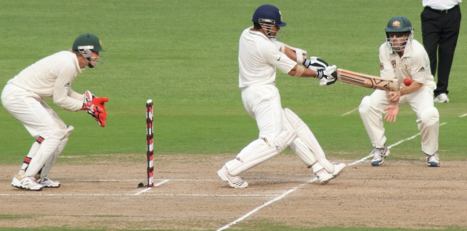 Indian batsman Sachin Tendulkar drives the ball on second day of second cricket test against Australia, Bangalore, October 10, 2010